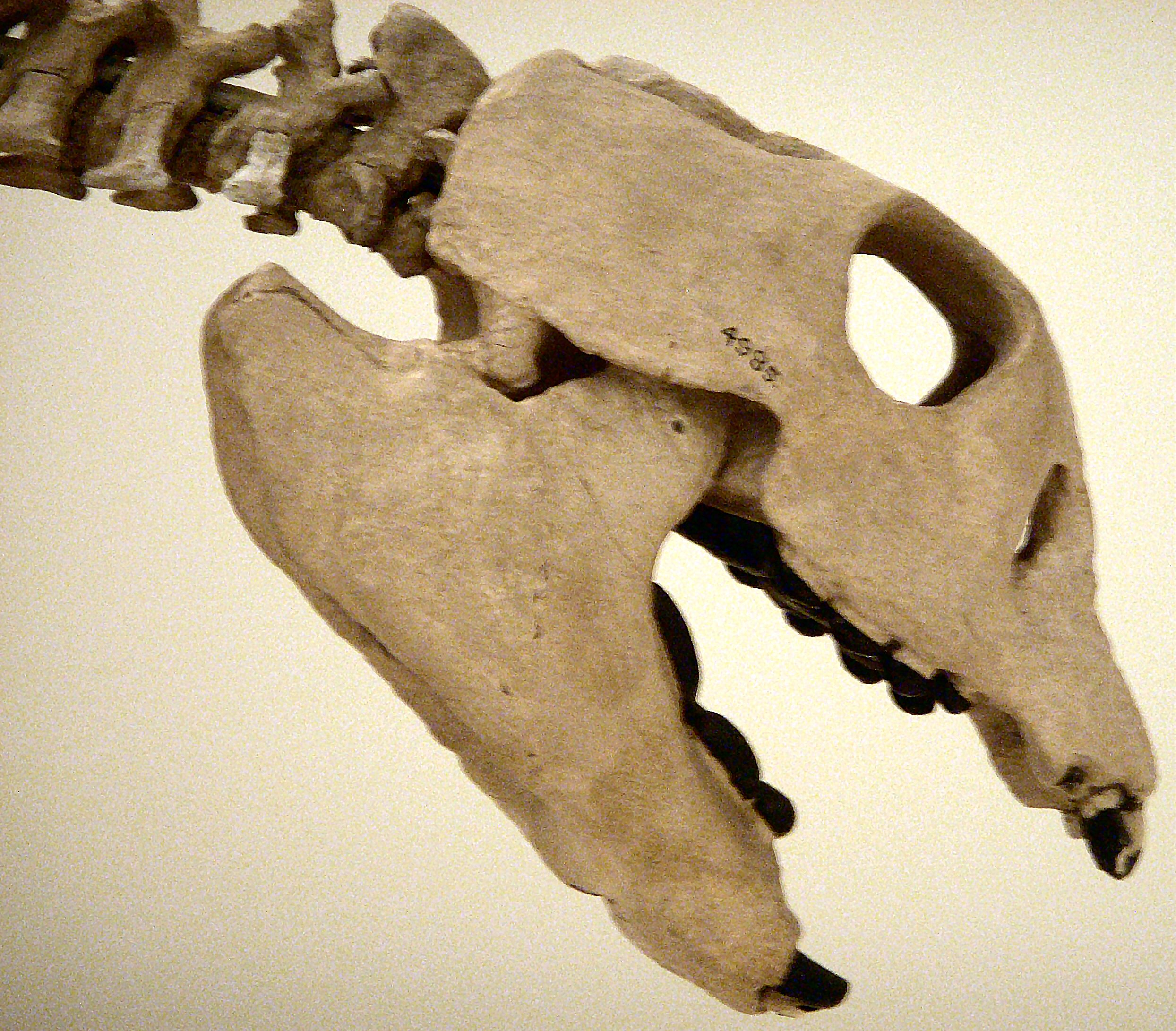 Skull of Placodus gigas, from a cast of a skeleton (specimen AMNH 4985) in the American Museum of Natural History.